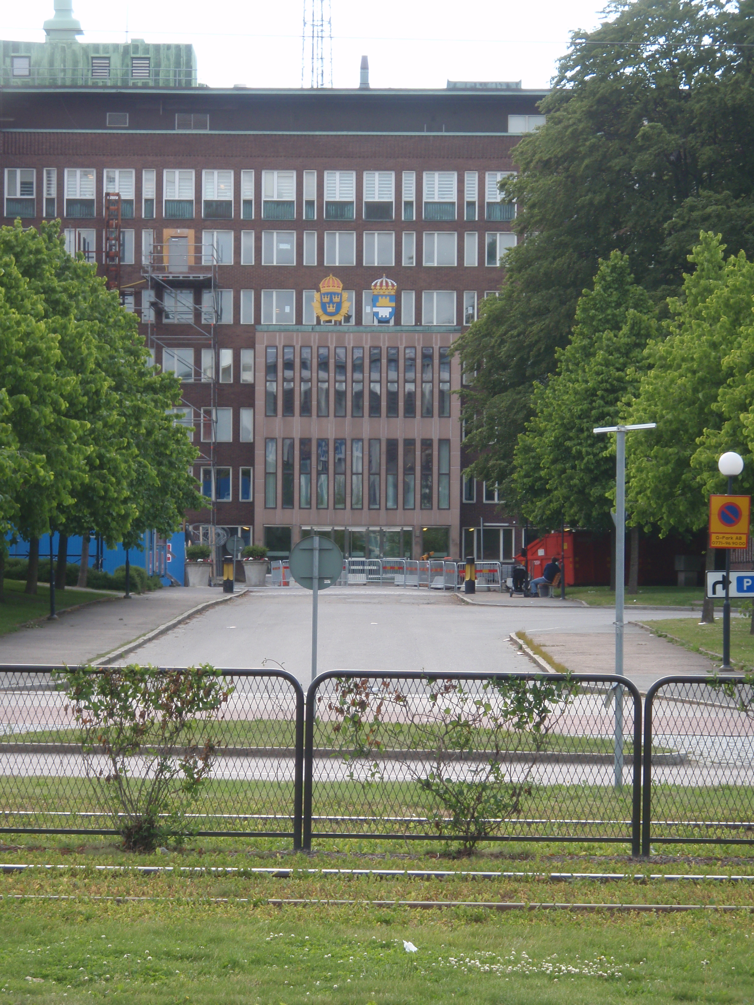 Police house in Gothenburg, Sweden.